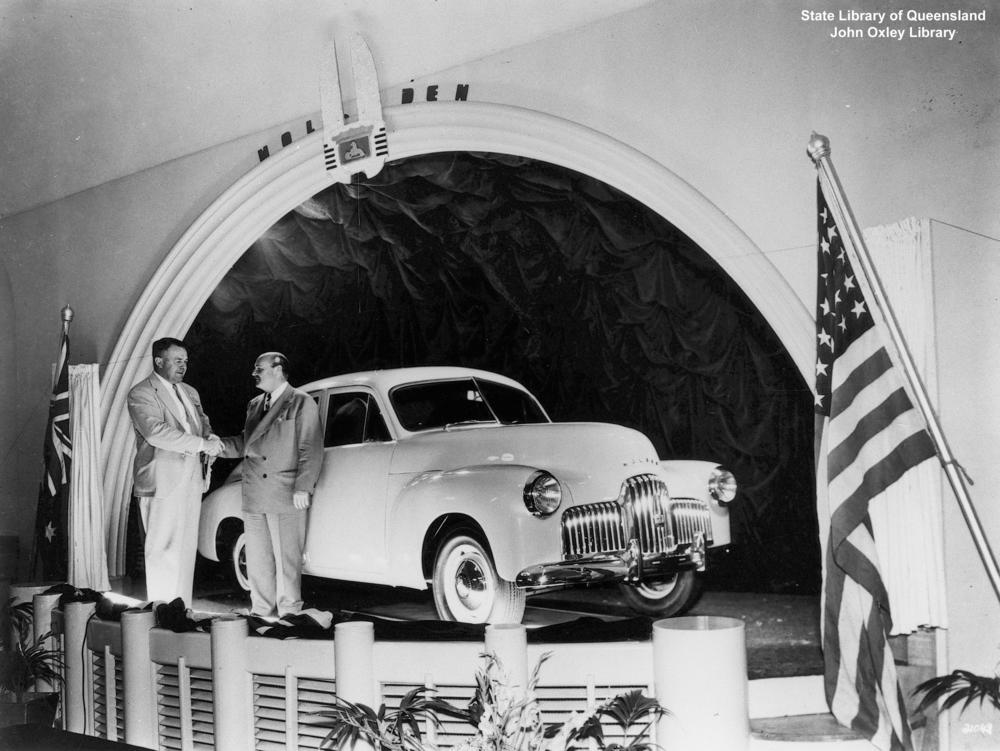 1948 The Queensland launch of the Holden 48/215 at Eagers Motors George Green of Eagers Motors (left) at the official launch of the new Holden with H. A. Cavanaugh, General Sales Manager of General Motors Holden's. This first Holden was called the 48/215, but later became better known as the FX. It was powered by a six cylinder, 2.2 litre 'Grey Motor' driving through a three-speed column shift transmission. Sir Laurence Hartnett had worked on the idea of an all-Australian car since 1936, as Managing Director of General Motors - Holden's, although he had left GMH by the time the first Holden was released. He then developed the idea of manufacturing a smaller, cheaper car in Australia, which was to become the ill-fated Hartnett.